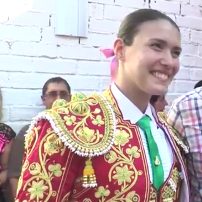 Conchi Reyes Rios - bullfighting